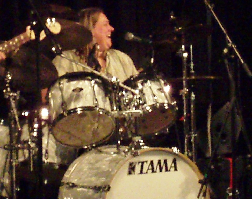 Justina Lakin 2009 Uppland Sverige